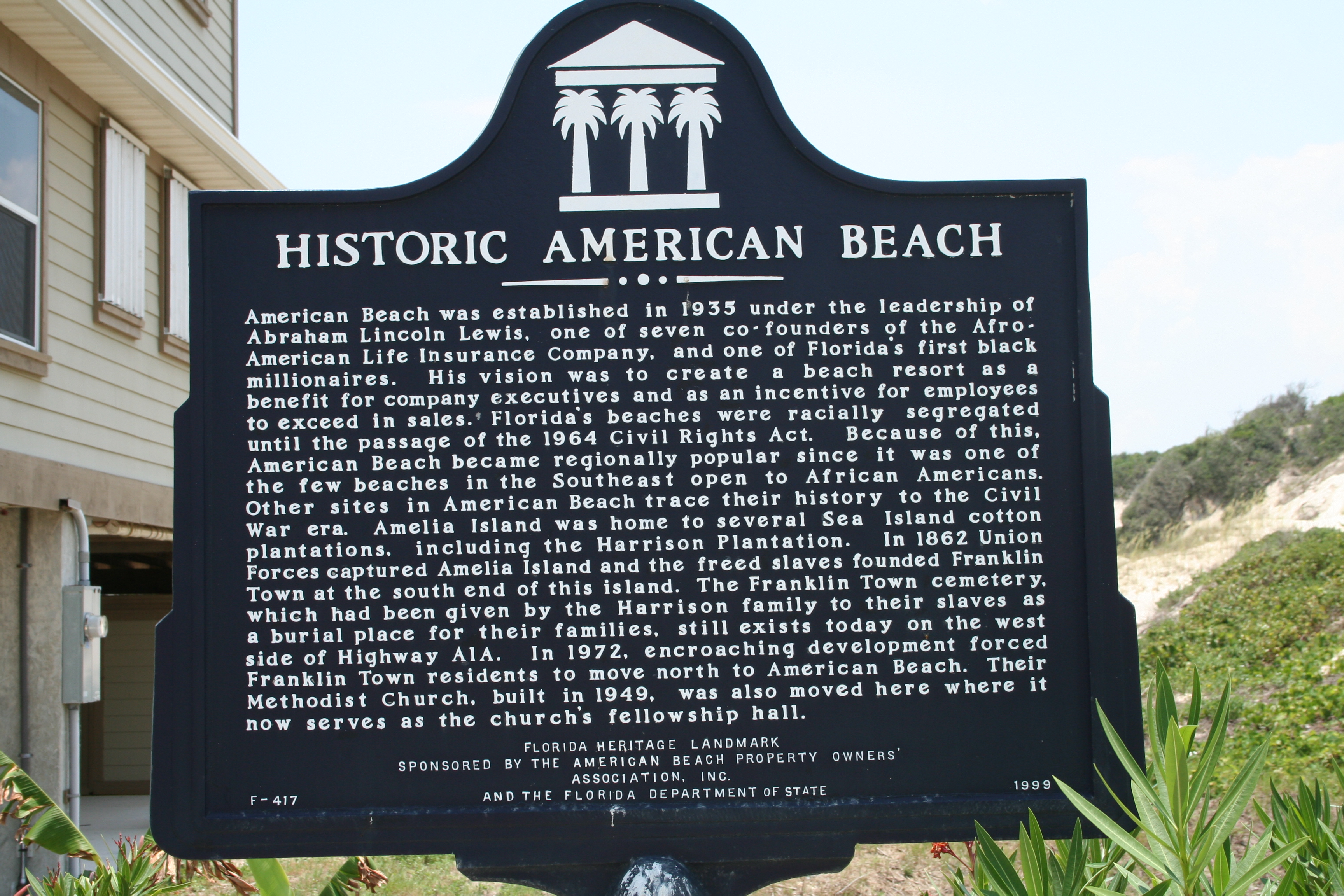 American Beach, FL plaque.